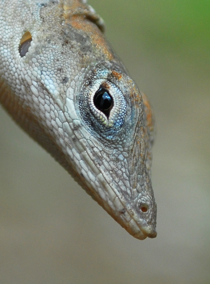 Up close with a female brown anole (Anolis sagrei), St. Petersburg, FL.